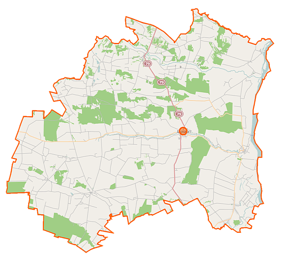 Map of Powiat lipski, Poland This map of Powiat lipski was created from OpenStreetMap project data, collected by the community. This map may be incomplete, and may contain errors. Don't rely solely on it for navigation. Border coordinates51.315221.2997←↕→21.836051.0086